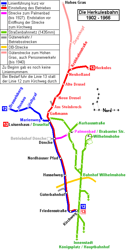 map of the former Herkulesbahn (railway) in Kassel, Germany